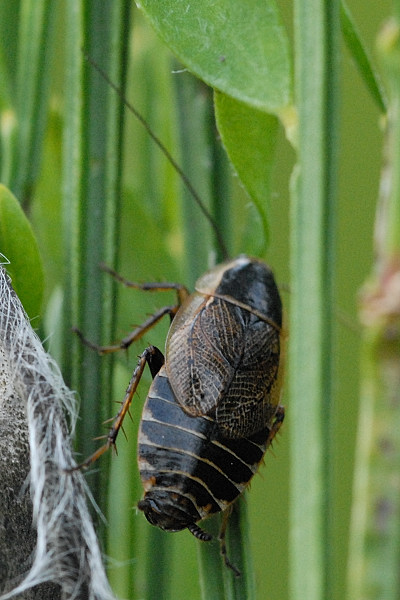 Picture taken in Commanster, Belgian High Ardennes . Species: Ectobius sylvestris female